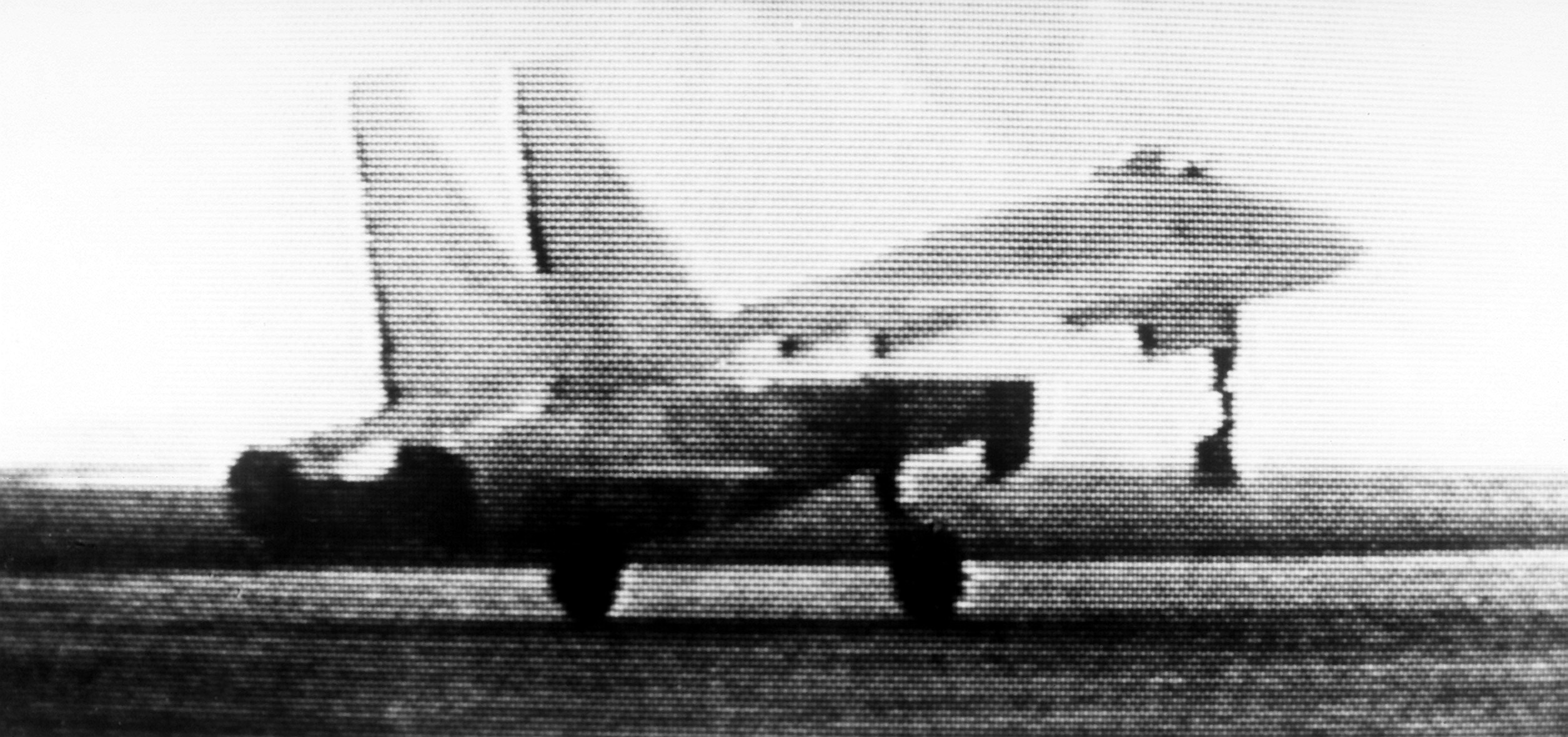 A Soviet Su-27 Flanker aircraft taking off. Date Shot: 25 Mar 1986